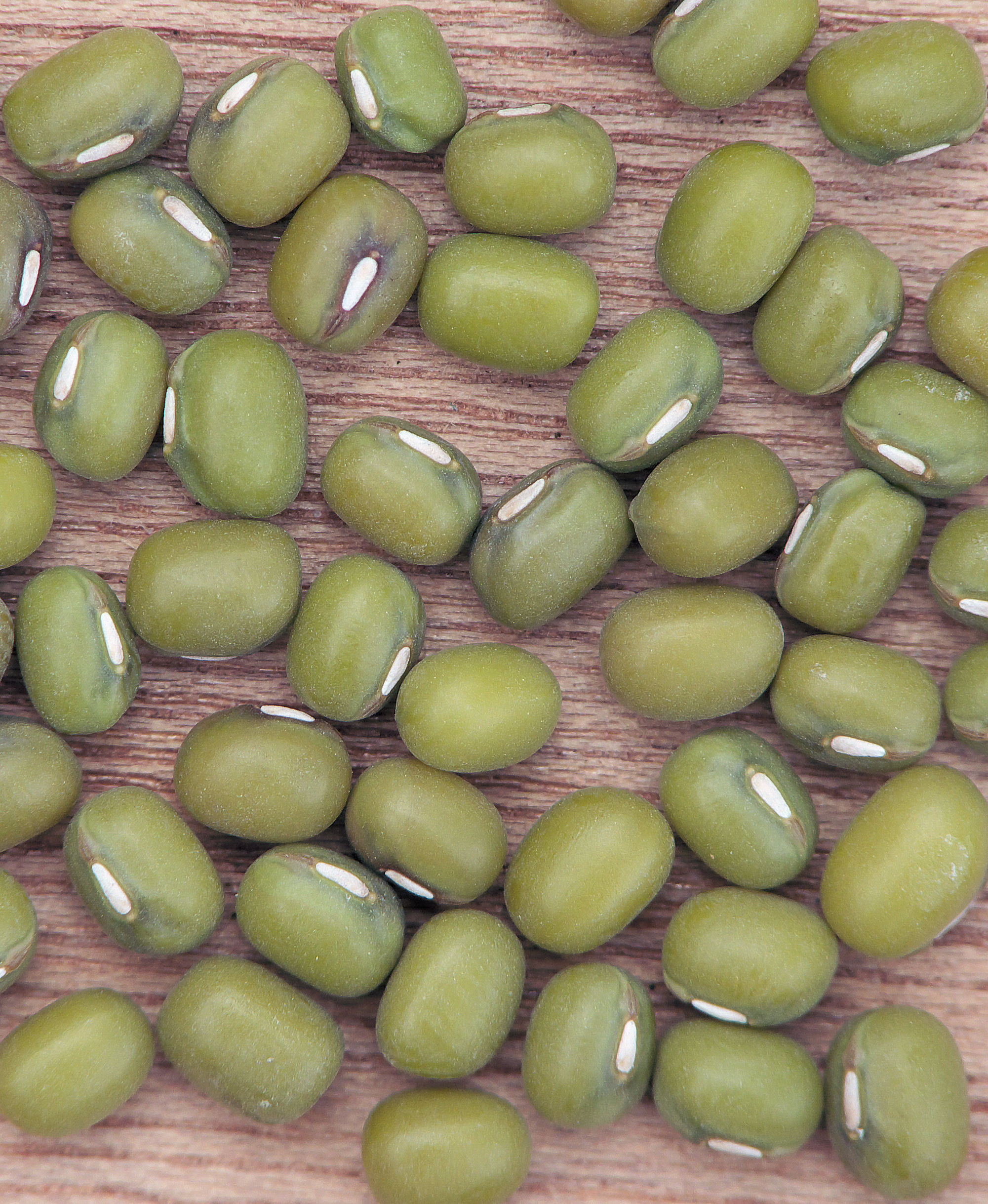 Vigna radiata